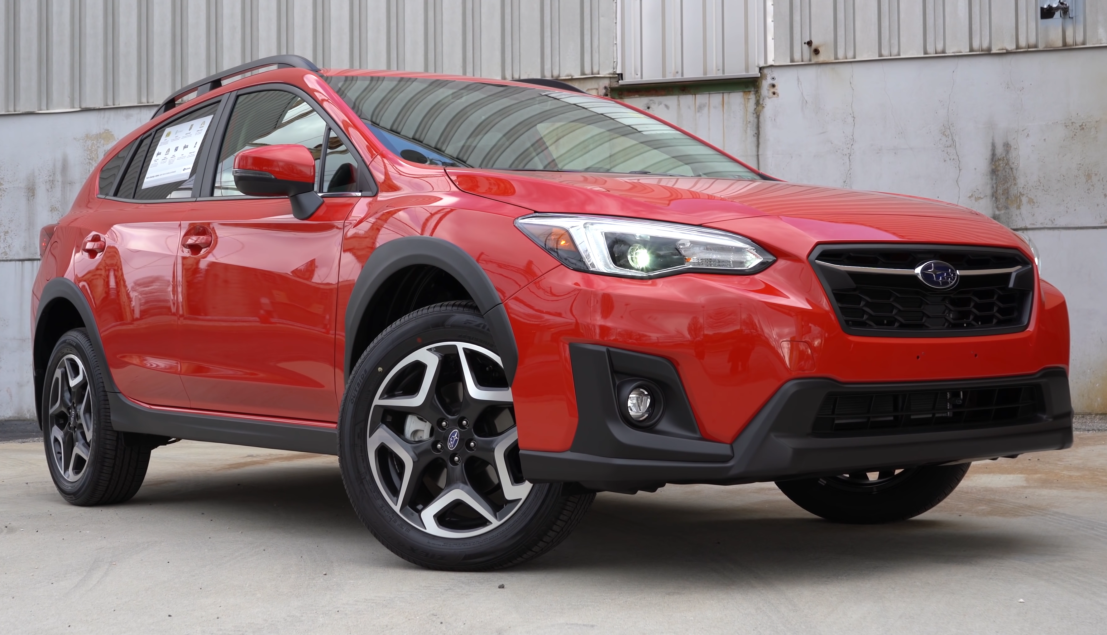 2020 Subaru Crosstrek (United States) front view